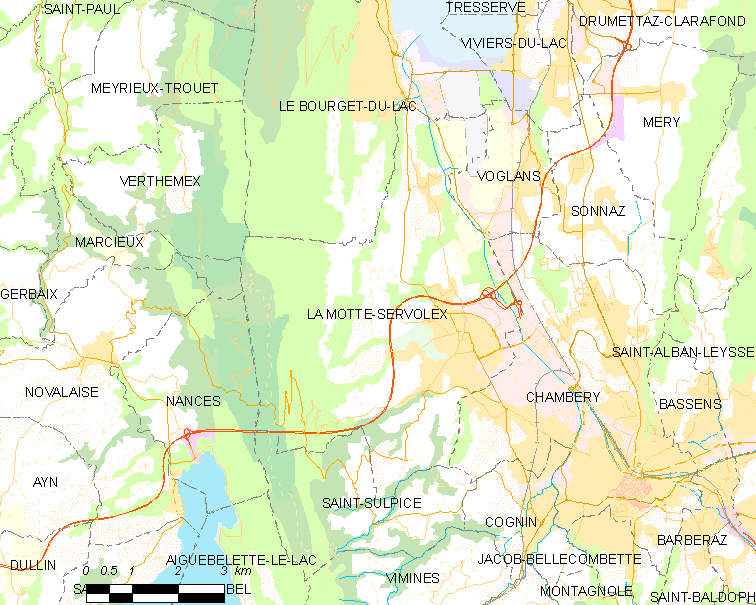 Map of French municipality